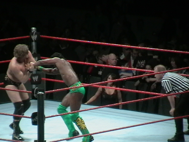 William Regal and Layla